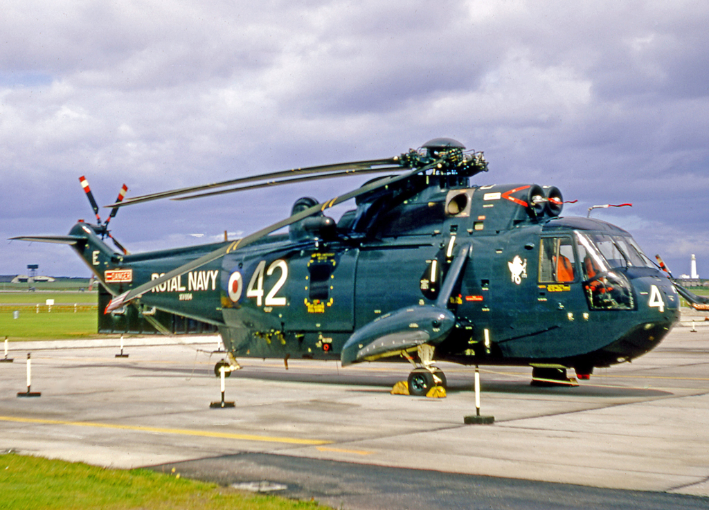 Westland Sea King HAS.1 of 826 Naval Air Squadron based on HMS Eagle, displayed at Lossiemouth NAS in 1970